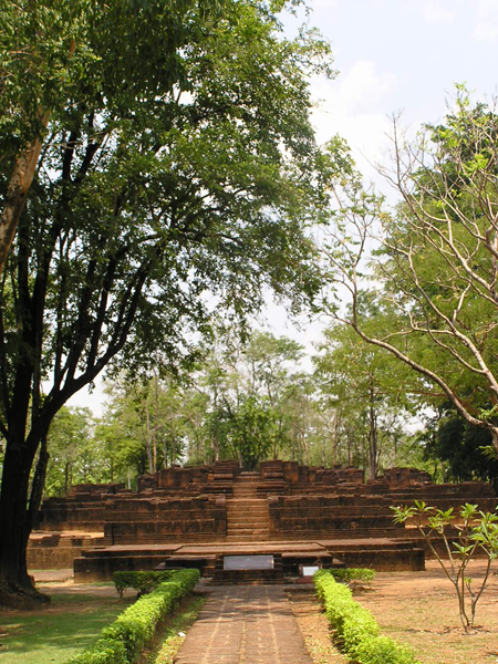 Mueang Sing historical park, Kanchanaburi province, Thailand